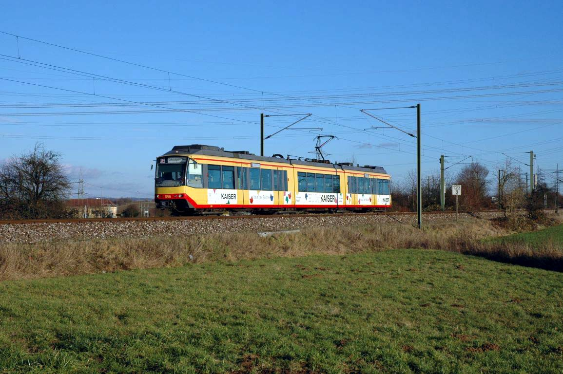 AVG's Car no. 856 of type GT8-100D, location: Leingarten, train number: 82108